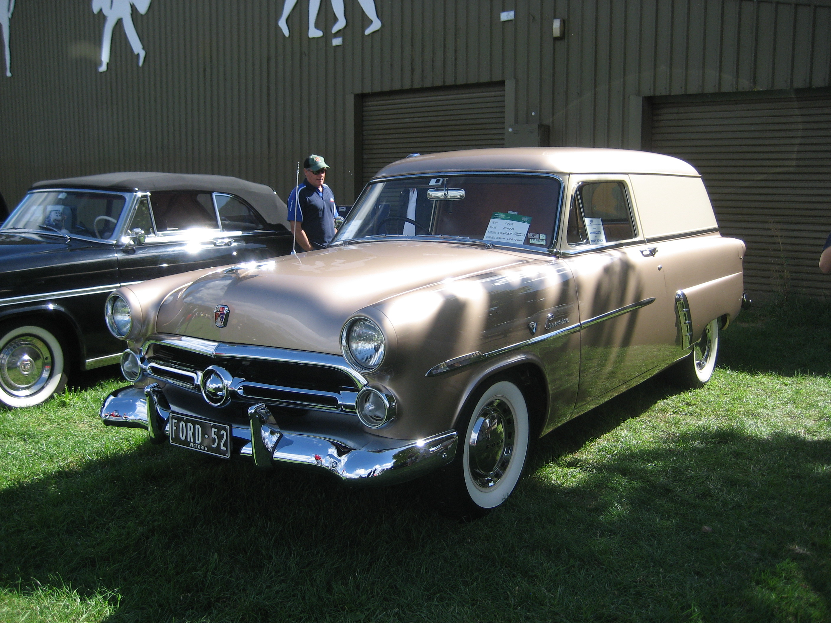 1952 Ford Courier Custom Delivery, a sedan delivery version of the 1952 US Ford. The 1952 US Ford passenger car range included Mainline, Customline and Crestline series, available in 2 door sedan, 4 door sedan, 2 door coupe, 2 door hardtop, 2 door convertible, 2 door station wagon and 4 door station wagon body styles. Engine; 215 6 cyl OHV or 110hp 239 Flathead V8. Ford Australia produced the V8 Customline, in 4 door sedan form only, and the V8 Mainline Coupe Utility, the latter being a 2 door coupe utility model unique to Australia.